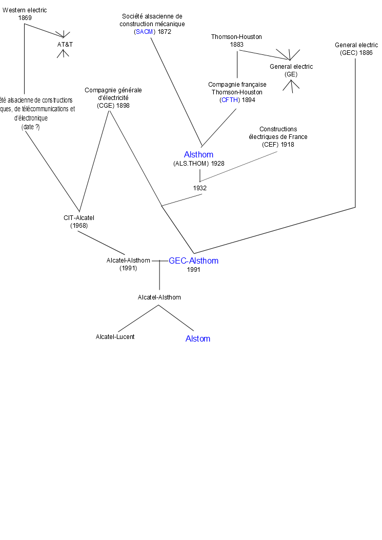 History of Alstom company